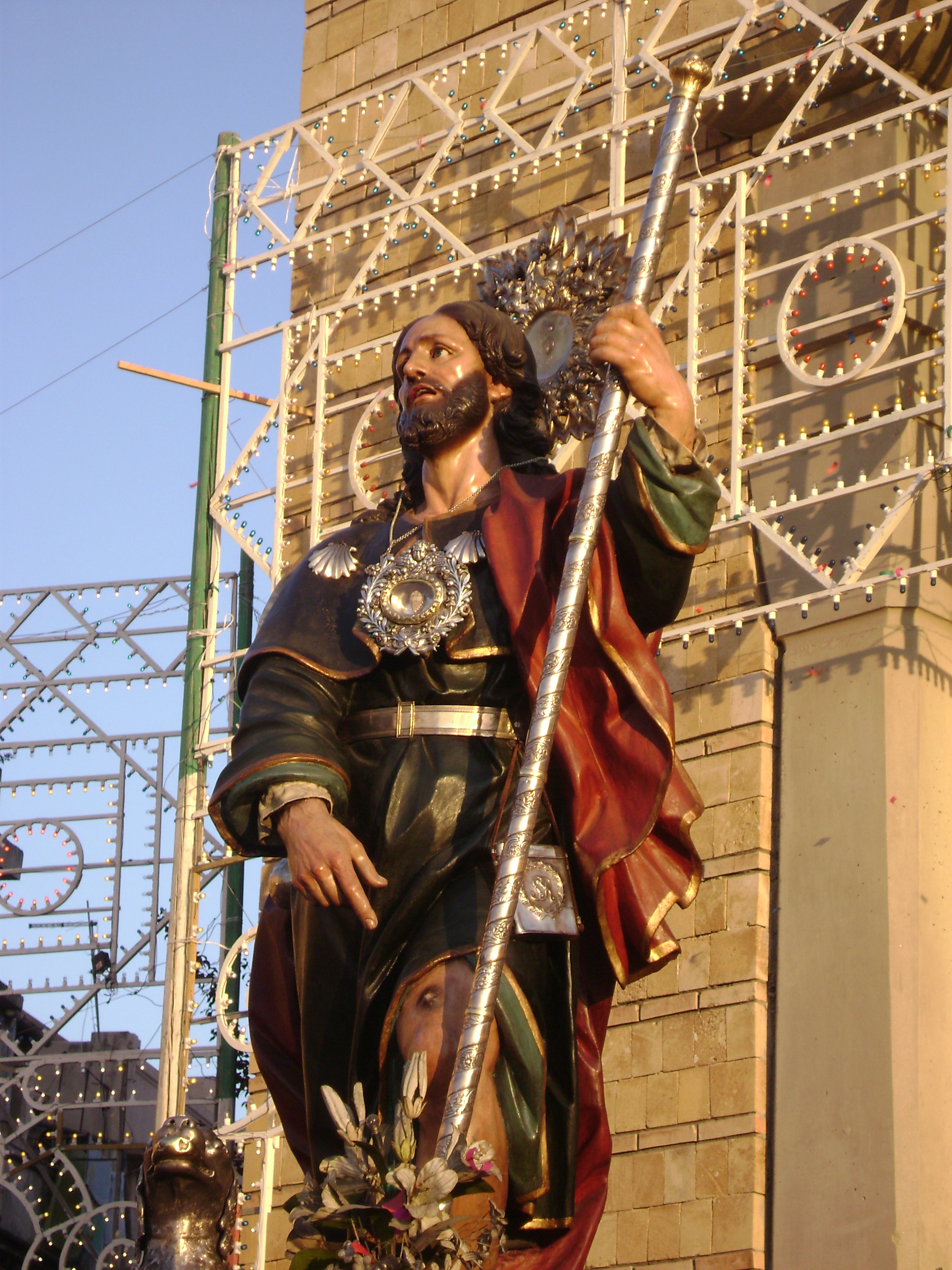 Statue of Sant Roch in Scilla, Italy.